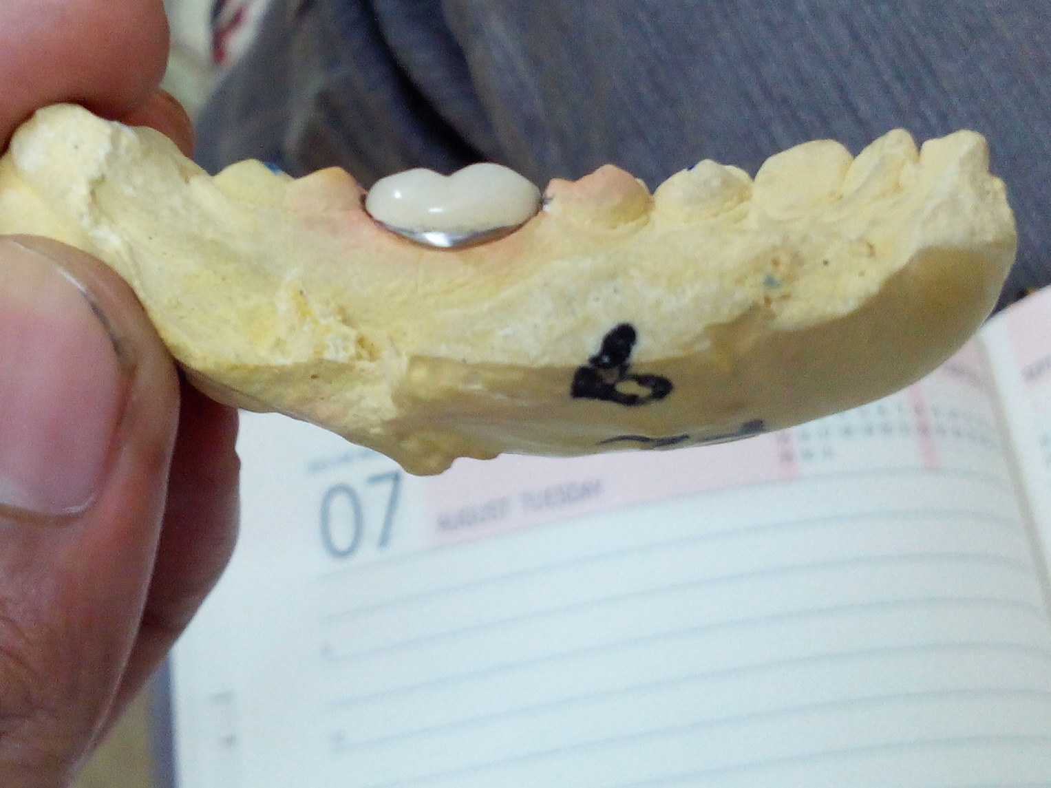 Porcelain fused to metal crown used in dentistry